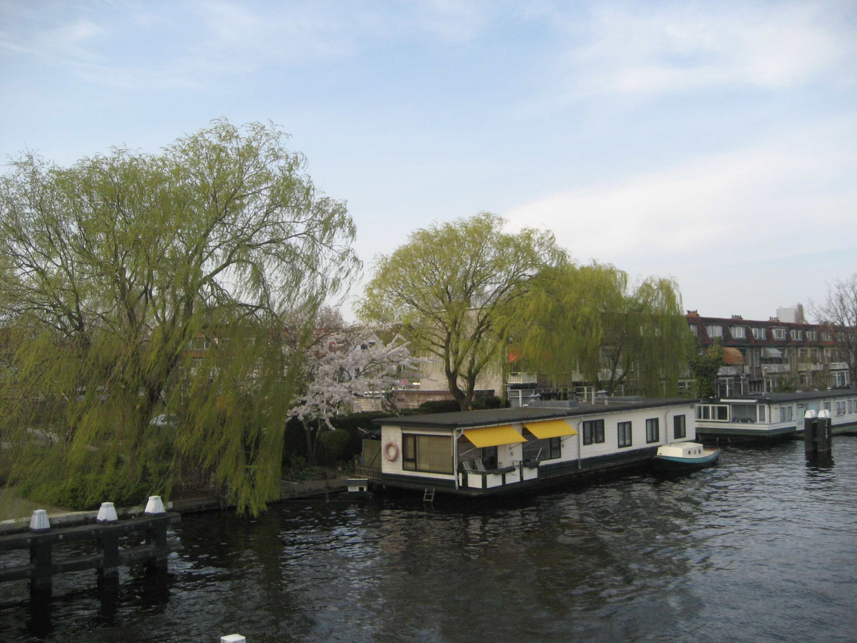 Houseboat in Oude Rijn near Morskade, Leiden (The Netherlands)